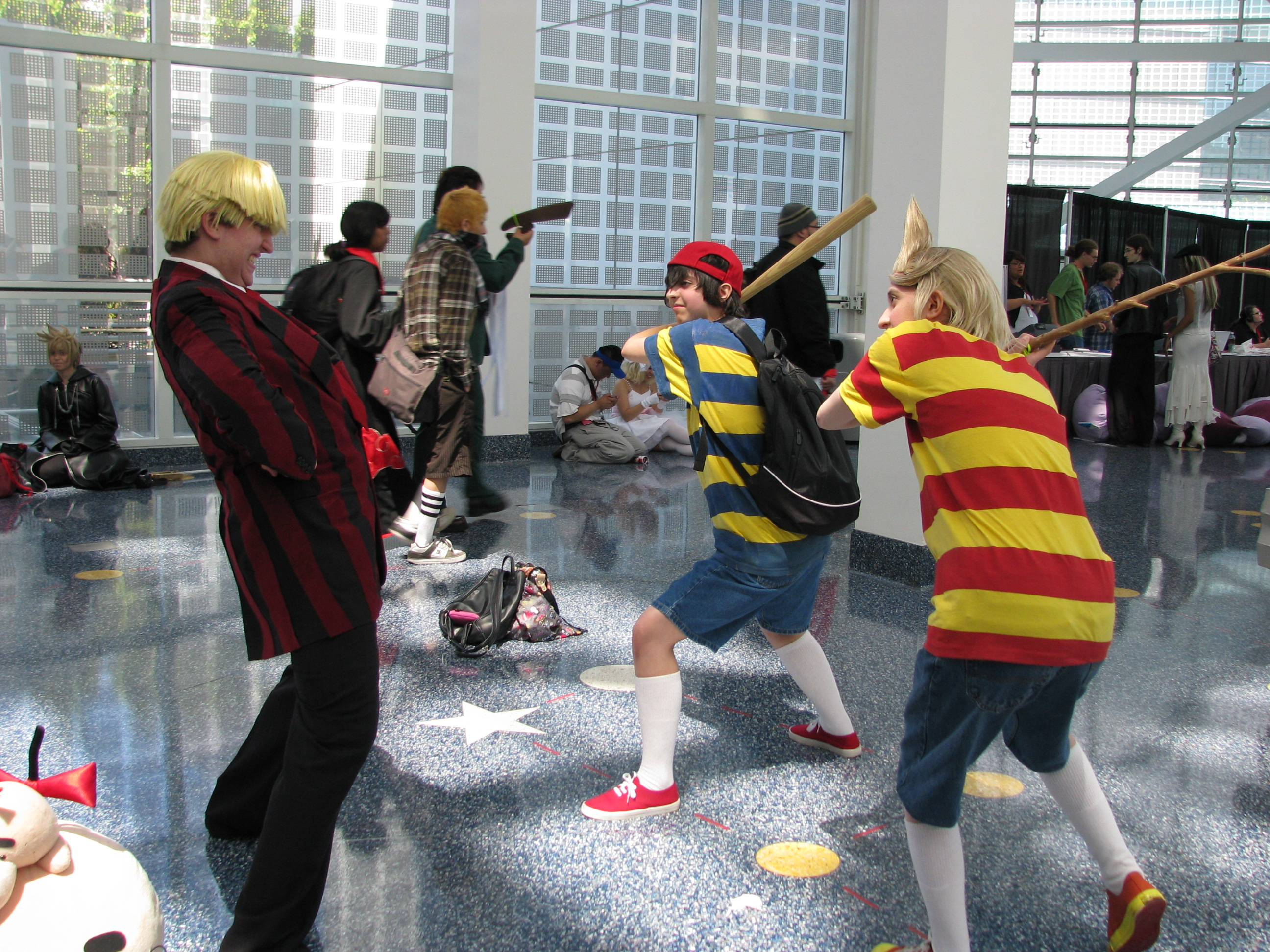 Anime Expo 2010 - Ness and Lucas fights Porky from Mother 2 + 3 [Earthbound]